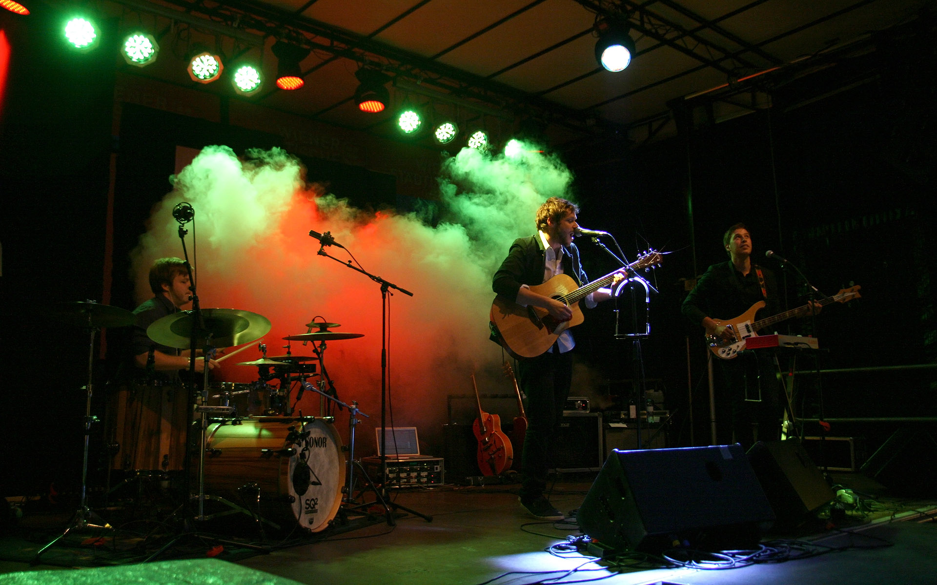 EFFI, Donaukanaltreiben 2012 in Vienna.